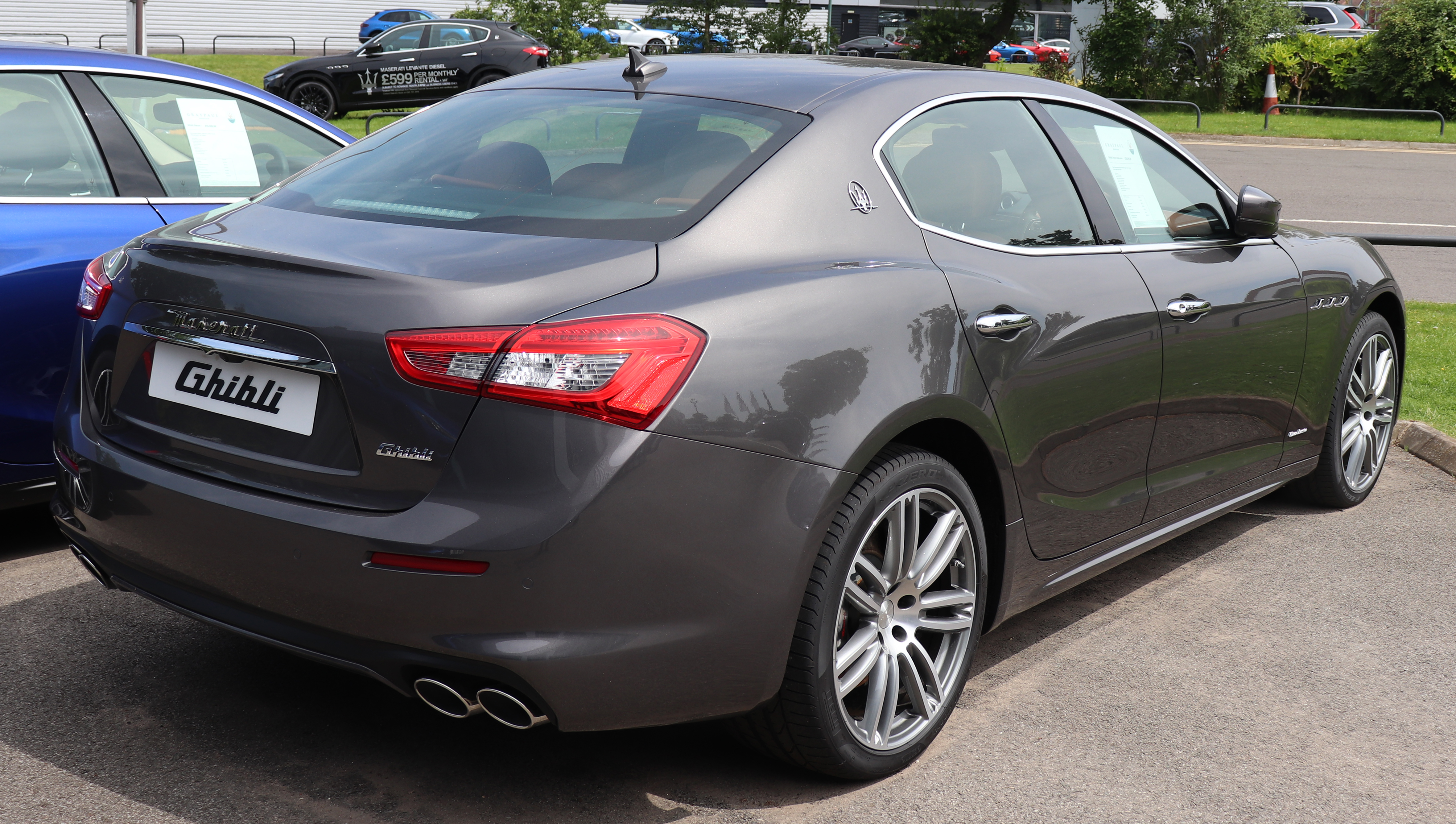 2018 Maserati Ghibli GranLusso Diesel 3.0 facelift Rear Taken in Solihull